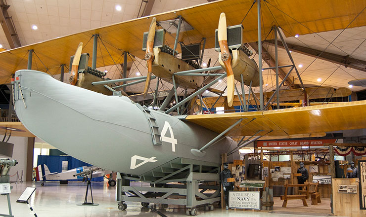 This photo is of the Curtiss flying boat NC-4, currently on display at the Naval Aviation Museum in Pensacola Florida.